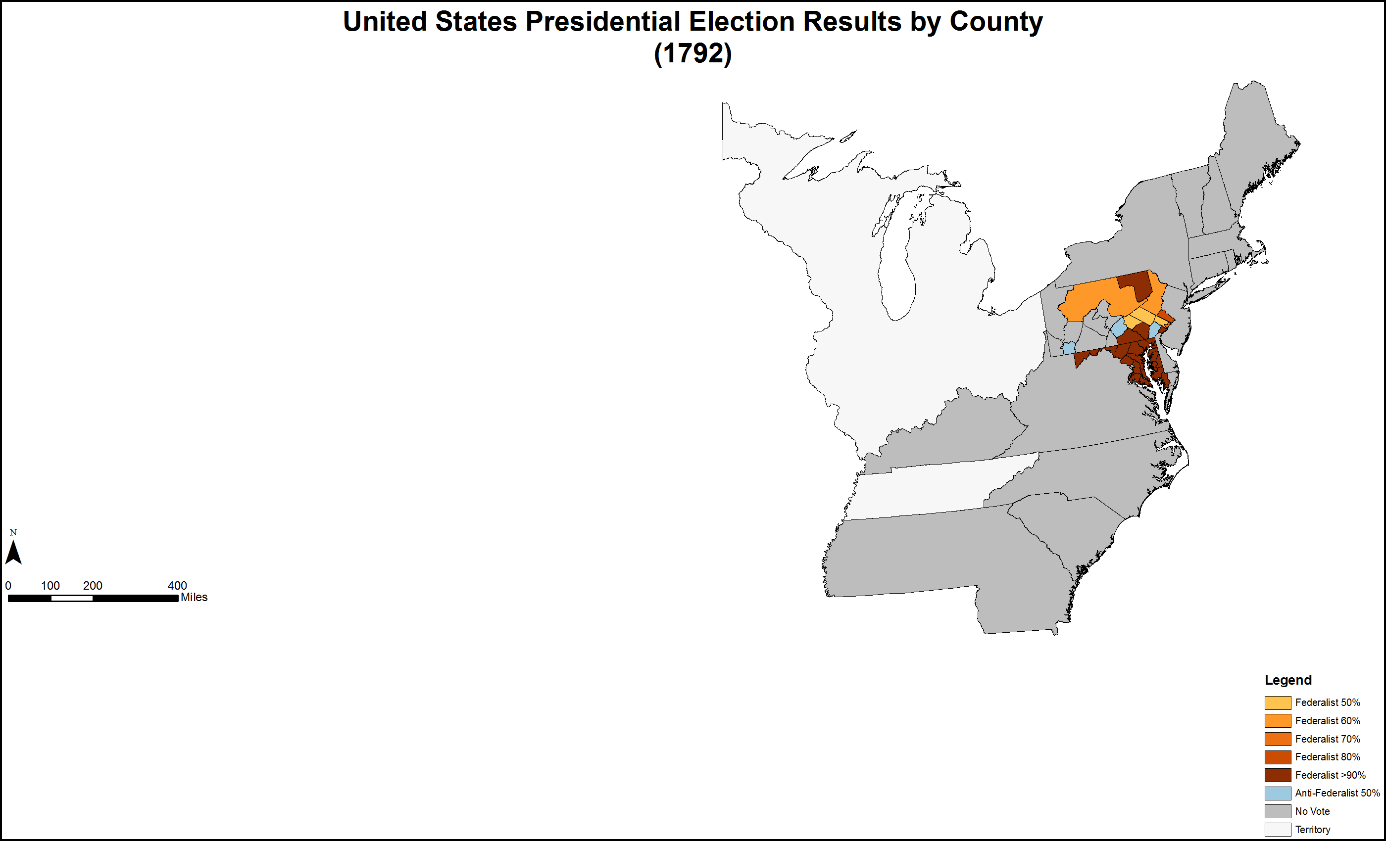 Presidential election results by county (1792). Colors based on Colorbrewer 2.0.